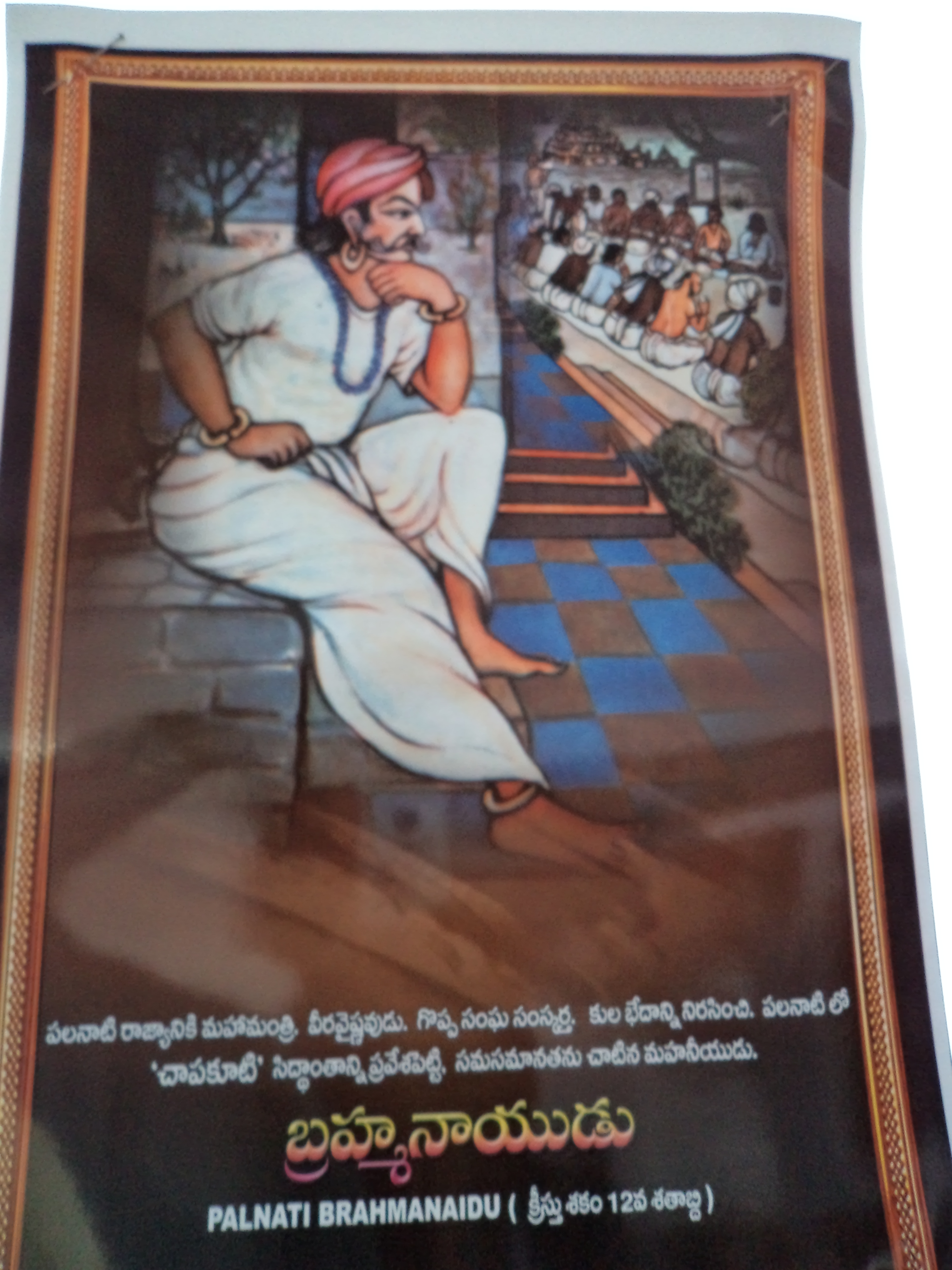 Portrait of Brahma Nayudu